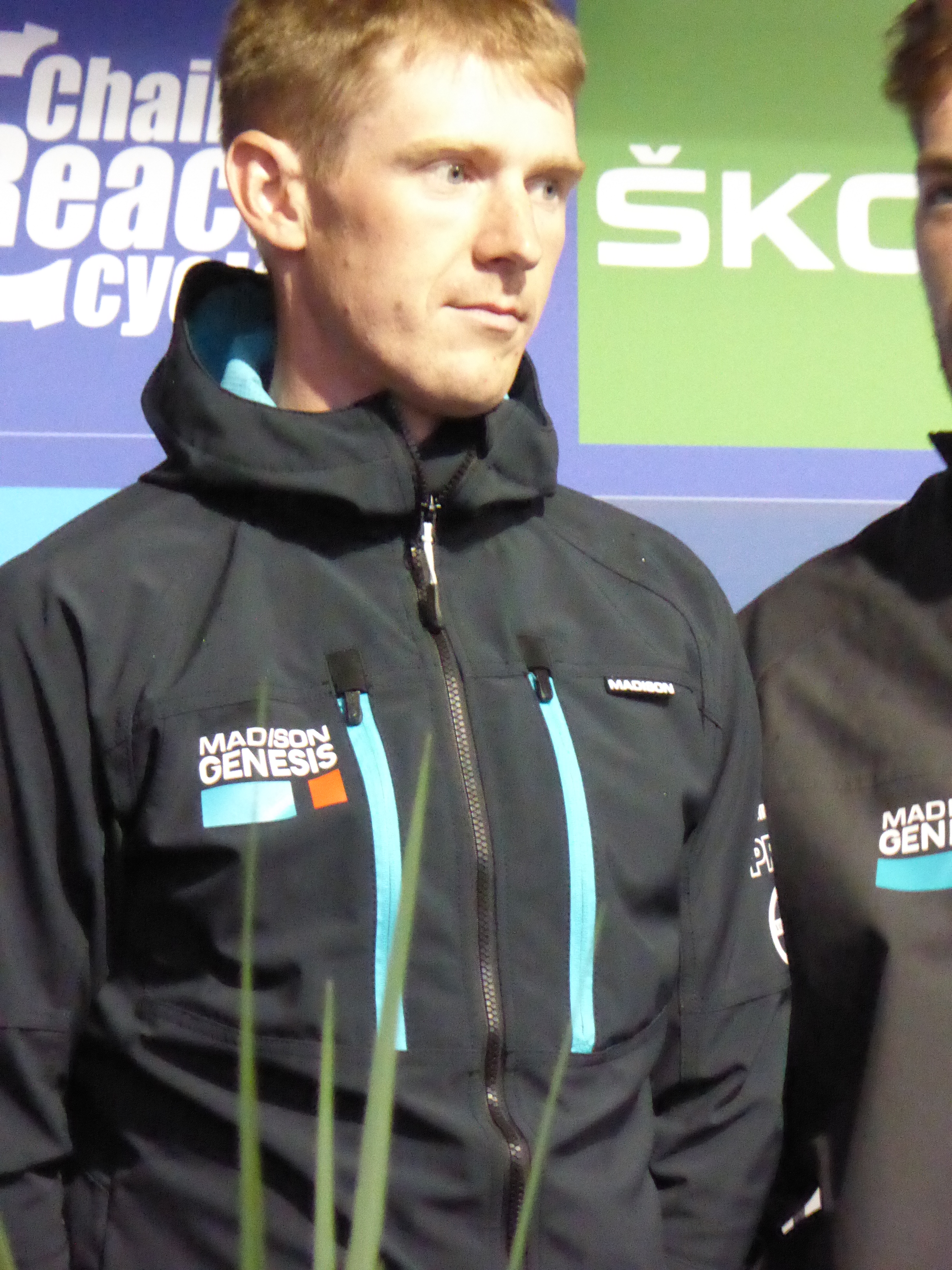 Erick Rowsell (Madison Genesis), pictured at the 2016 Tour of Britain team presentation in Glasgow on 3 September 2016.